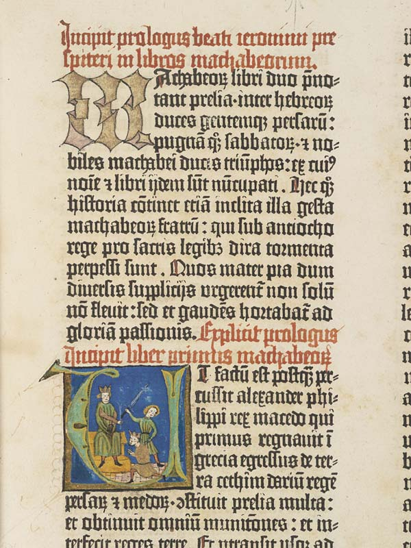 The Gutenberg Bible, digitised by the HUMI Project, Keio University, July 2005; © National Library of Scotland The Gutenberg Bible was the first book printed with moveable type. Printed in Mainz, Germany, around 1455 by Johannes Gutenberg, the inventor of printing, and Johannes Fust. One of around only 20 complete copies to survive out of the original 180. Two volumes. Also known as The 42-line Bible or The Mazarine Bible. A page from the Old Testament from the chapter I Maccabees, contains handwritten red rubrics. Decorated initial M; historiated initial U (the correct initial should be E) depicting King Alexander hitting King Philip of Macedony. The Greeks under Alexander had conquered Judea. Marginalia visible but faded through washing.